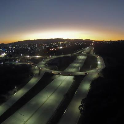 Una de las principales vias